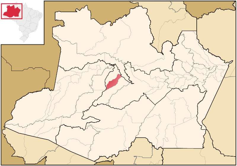 Map of Amazonas highlighting Alvarães.